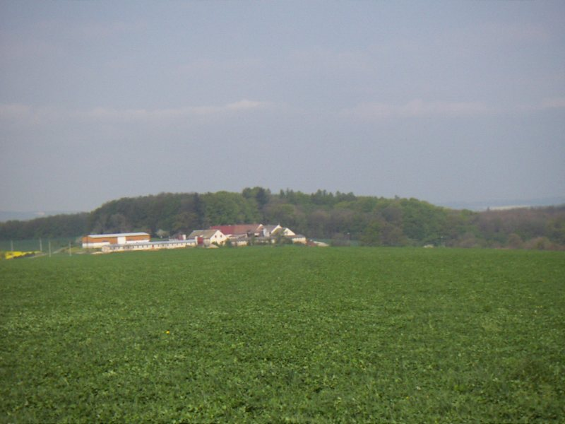 Nedosinsky haj (means forest), natural monument near Litomysl, Eastern Bohemia